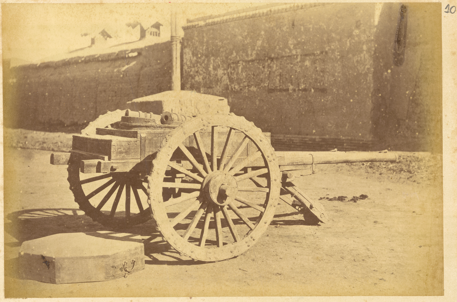 In 1874-75, the Russian government sent a research and trading mission to China to seek out new overland routes to the Chinese market, report on prospects for increased commerce and locations for consulates and factories, and gather information about the Dungan Revolt then raging in parts of western China. Led by Lieutenant Colonel Iulian A. Sosnovskii of the army General Staff, the nine-man mission included a topographer, Captain Matusovskii; a scientific officer, Dr. Pavel Iakovlevich Piasetskii; Chinese and Russian interpreters; three non-commissioned Cossack soldiers; and the mission photographer, Adolf Erazmovich Boiarskii. The mission proceeded from Saint Petersburg to Shanghai via Ulan Bator (Mongolia), Beijing, and Tianjin, and then followed a route along the Yangtze River, along the Great Silk Road through the Hami oasis, to Lake Zaysan, back to Russia. Boiarskii took some 200 photographs, which constitute a unique resource for the study of China in this period. Most of the photographs are included in this album, which later became part of the Thereza Christina Maria Collection assembled by Emperor Pedro II of Brazil and given by him to the National Library of Brazil. Cannons; Memory of the World; Ordnance